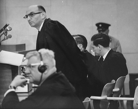 Defense counsel Robert Servatius (foreground) and chief prosecutor Gideon Hausner (standing) during the Eichmann Trial in Jerusalem.